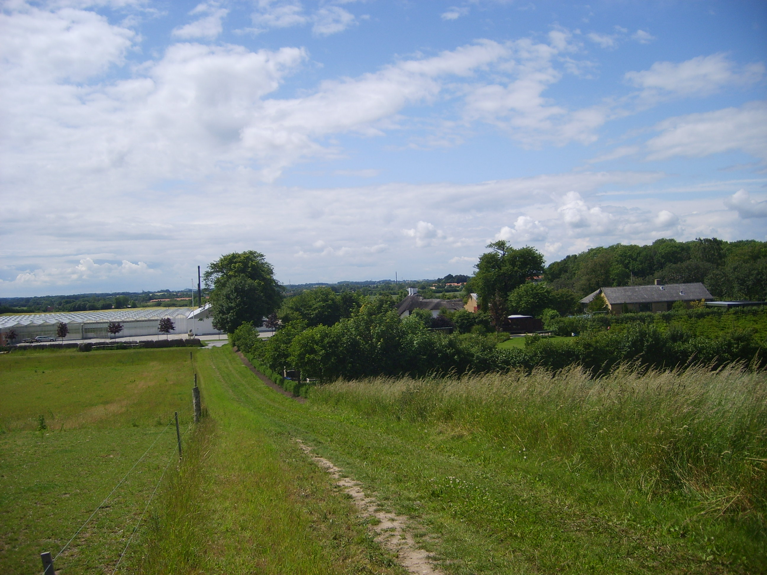 Panorama view of Fløjstrup, a village outside Aarhus in Denmark, taken from a field road towards the ocean.